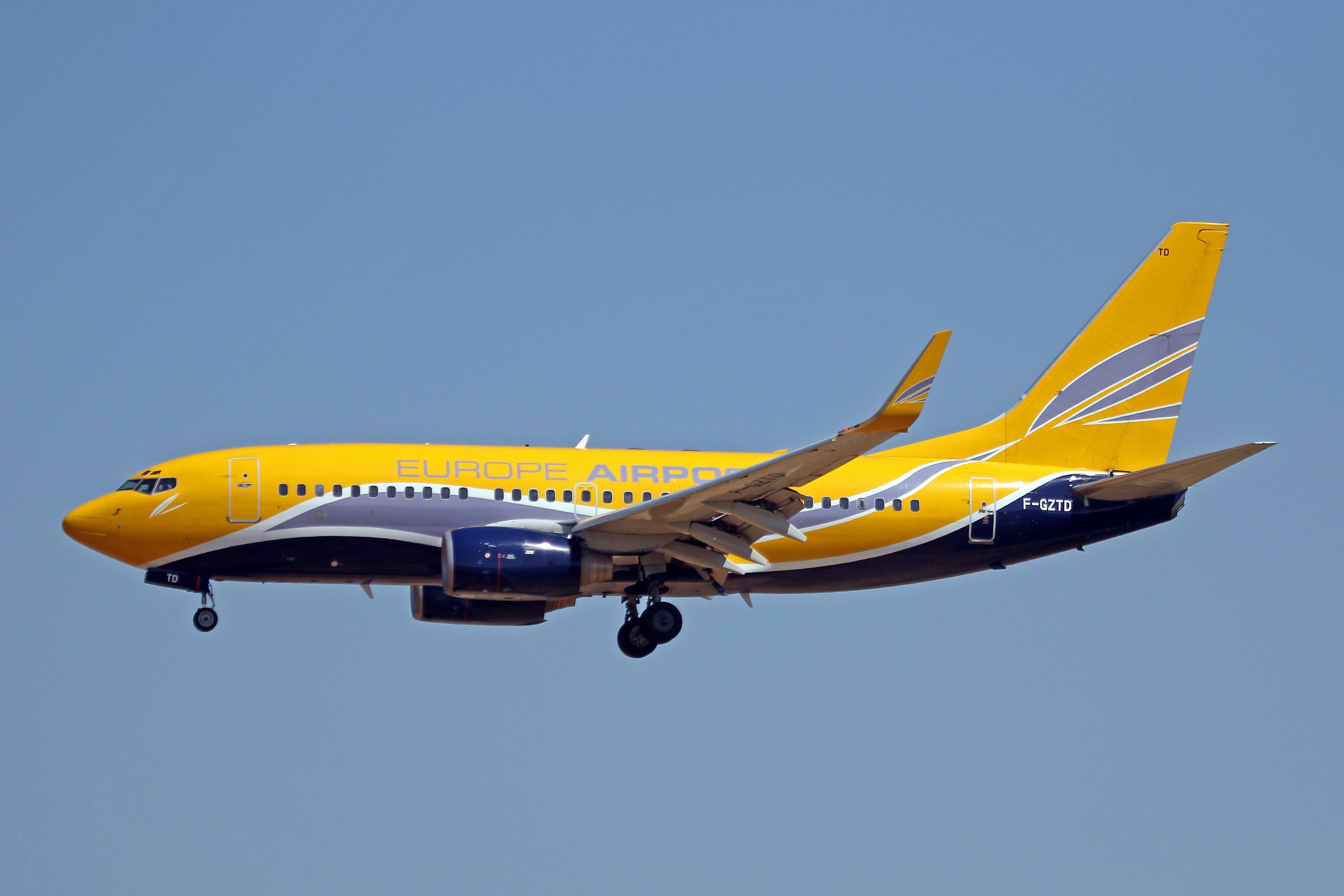 A picture of an airplane (name of it is on the file name).